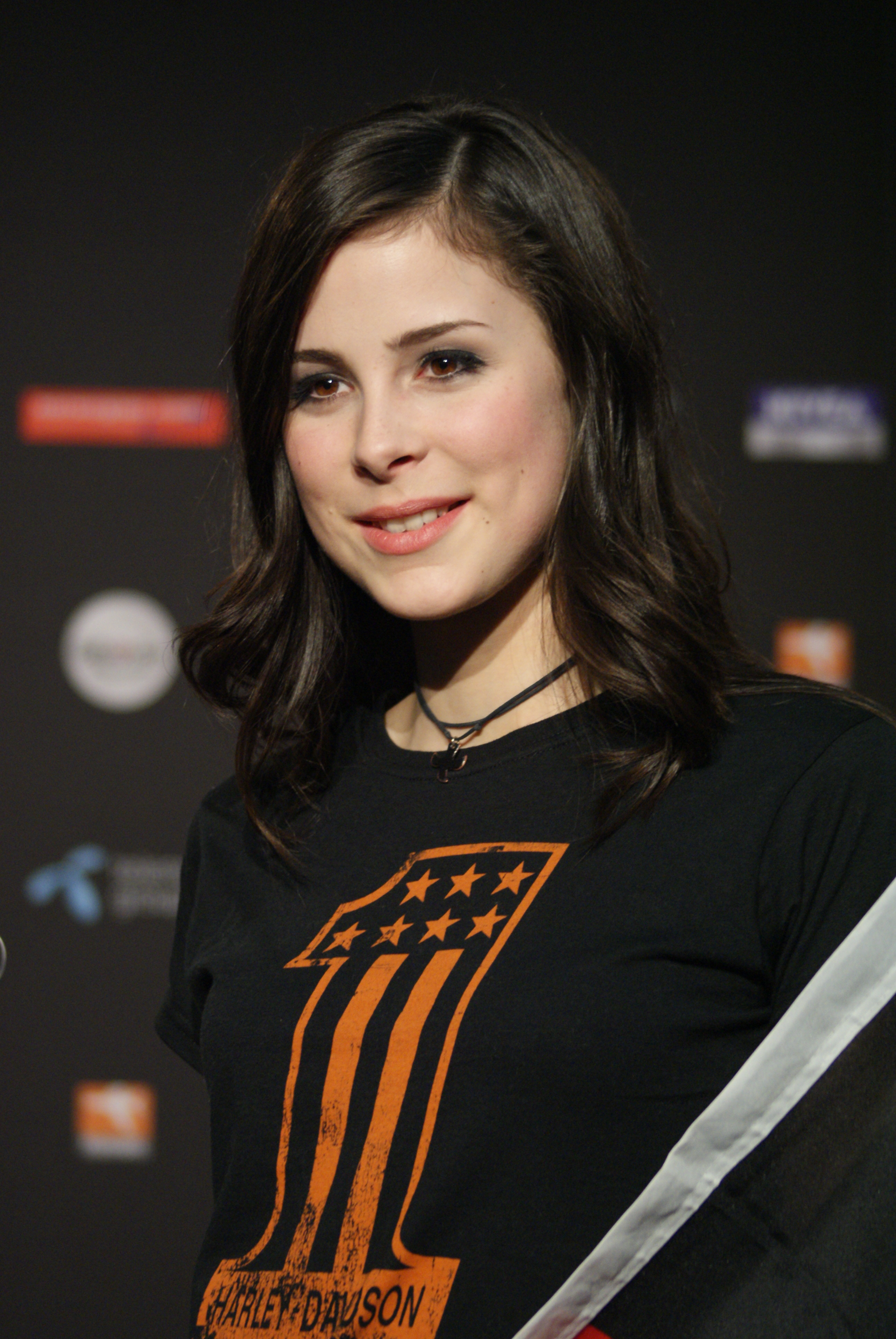 Lena Meyer-Landrut as № 1 at the press conference after the Eurovision Song Contest Oslo 2010